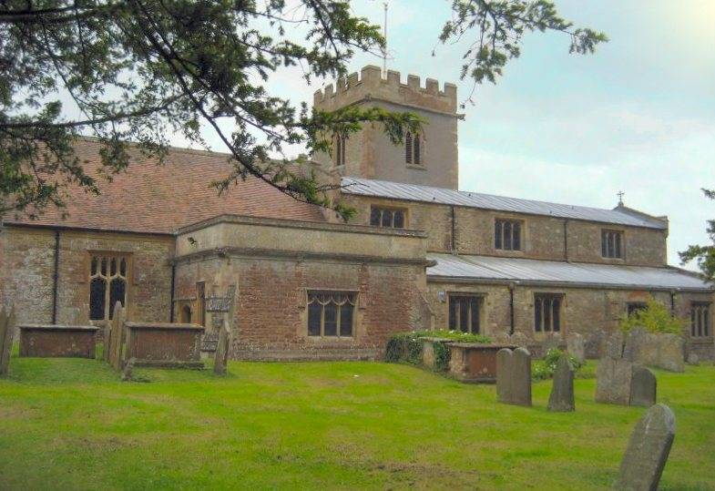 Holy Cross Church, Chiseldon, Wiltshire from the West